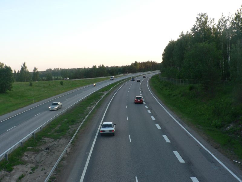 National road 7 (E18) in Sipoo, Finland. Picture taken from the Knutersintie bridge.